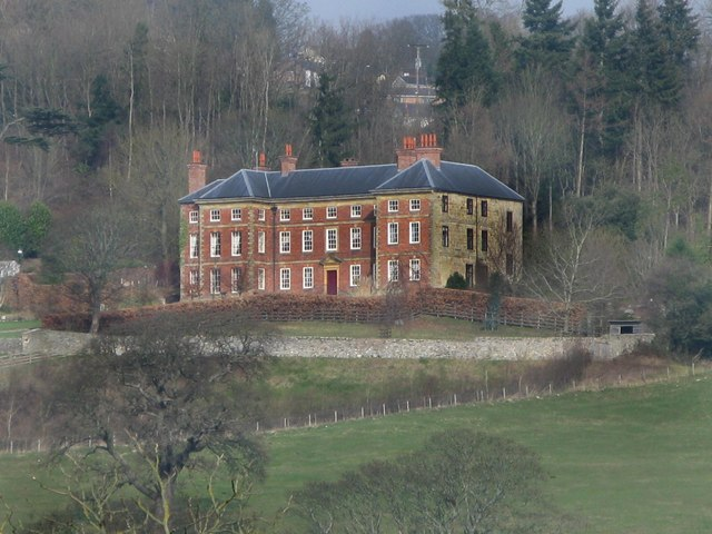 Trevor Hall from the Llangollen Canal